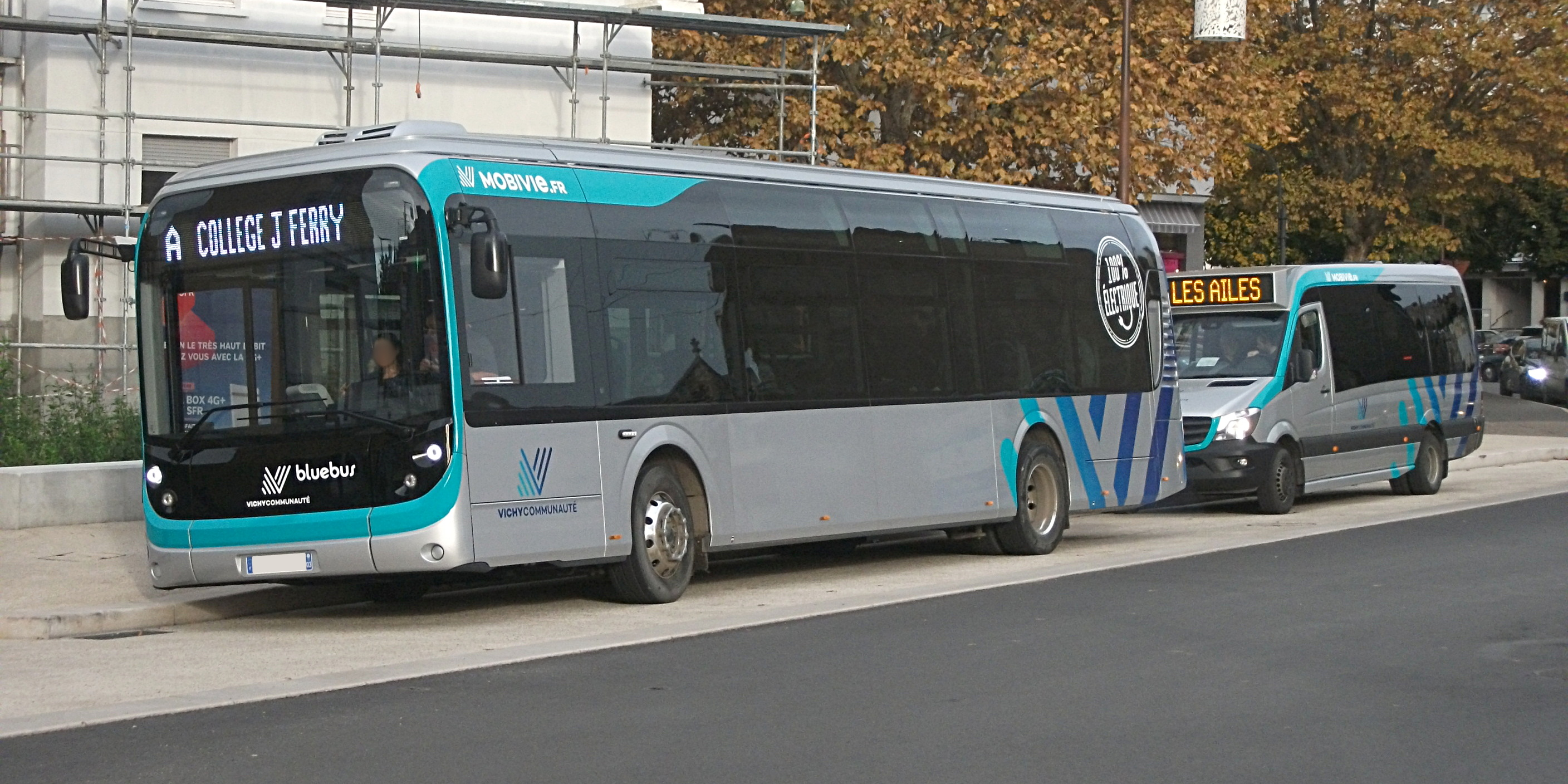 Bolloré Bluebus and Mercedes-Benz Sprinter City buses in Cusset Centre stop, Cusset, Allier, Auvergne-Rhône-Alpes, France. [17224]